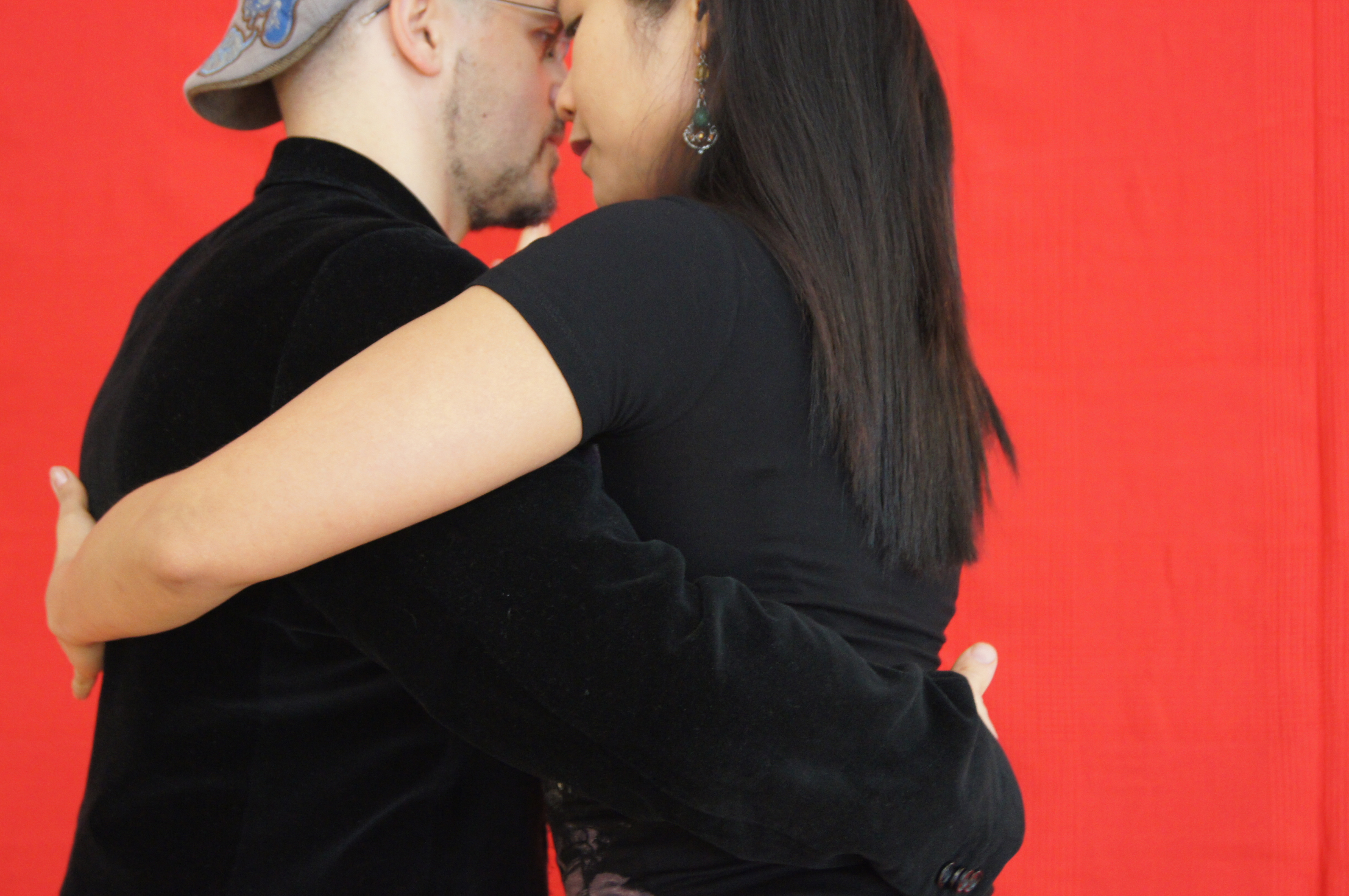 Argentine tango close embrace. Tango instructurs Homer and Cristina Ladas at Stanford, CA, USA.